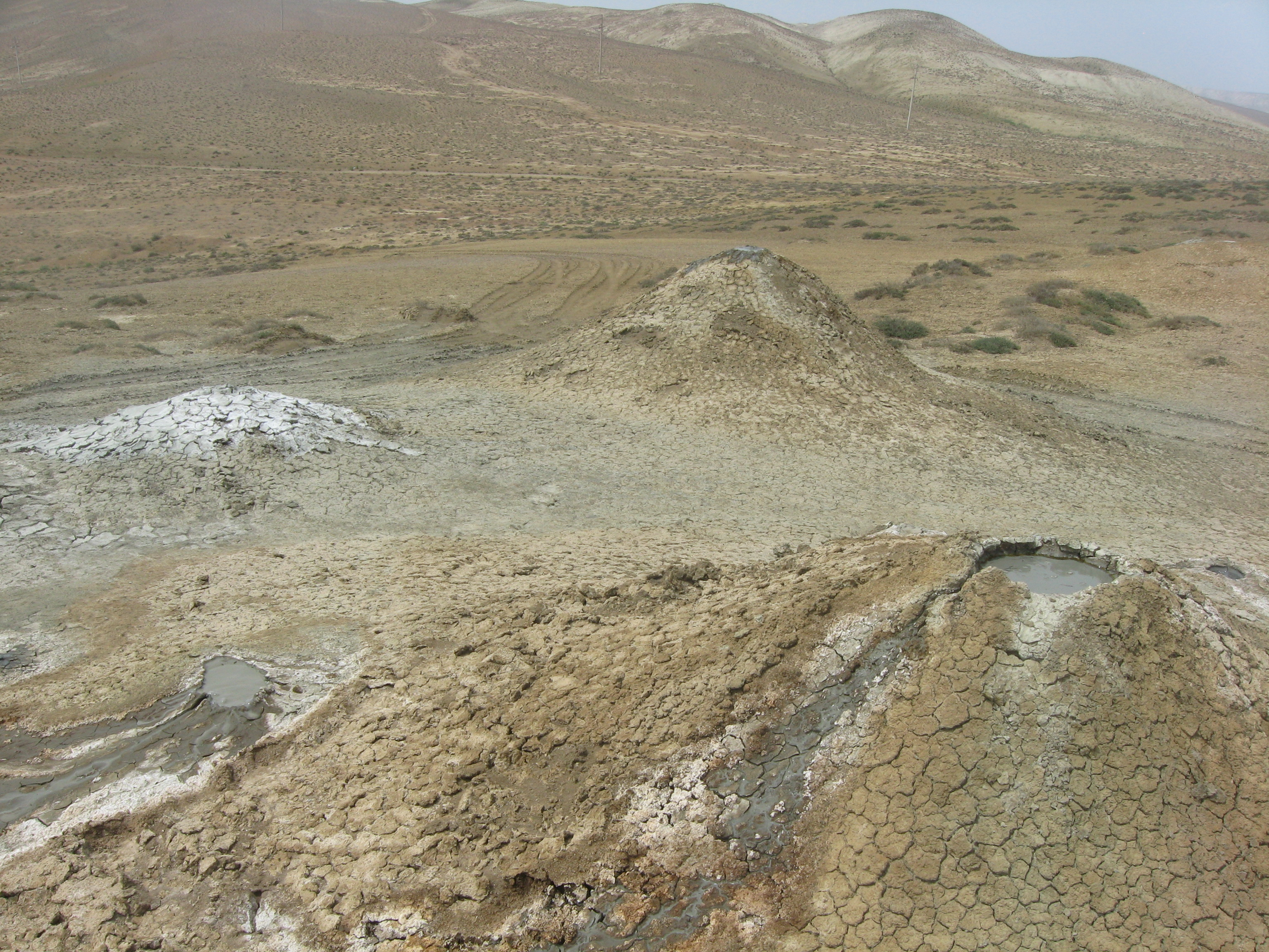 Mod volcanos of Azerbaijan